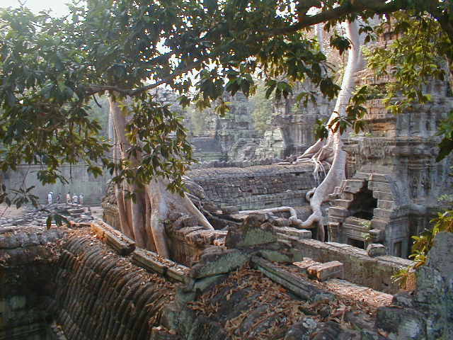 Ta Prohm, Angkor Archaeological Park, Cambodia.